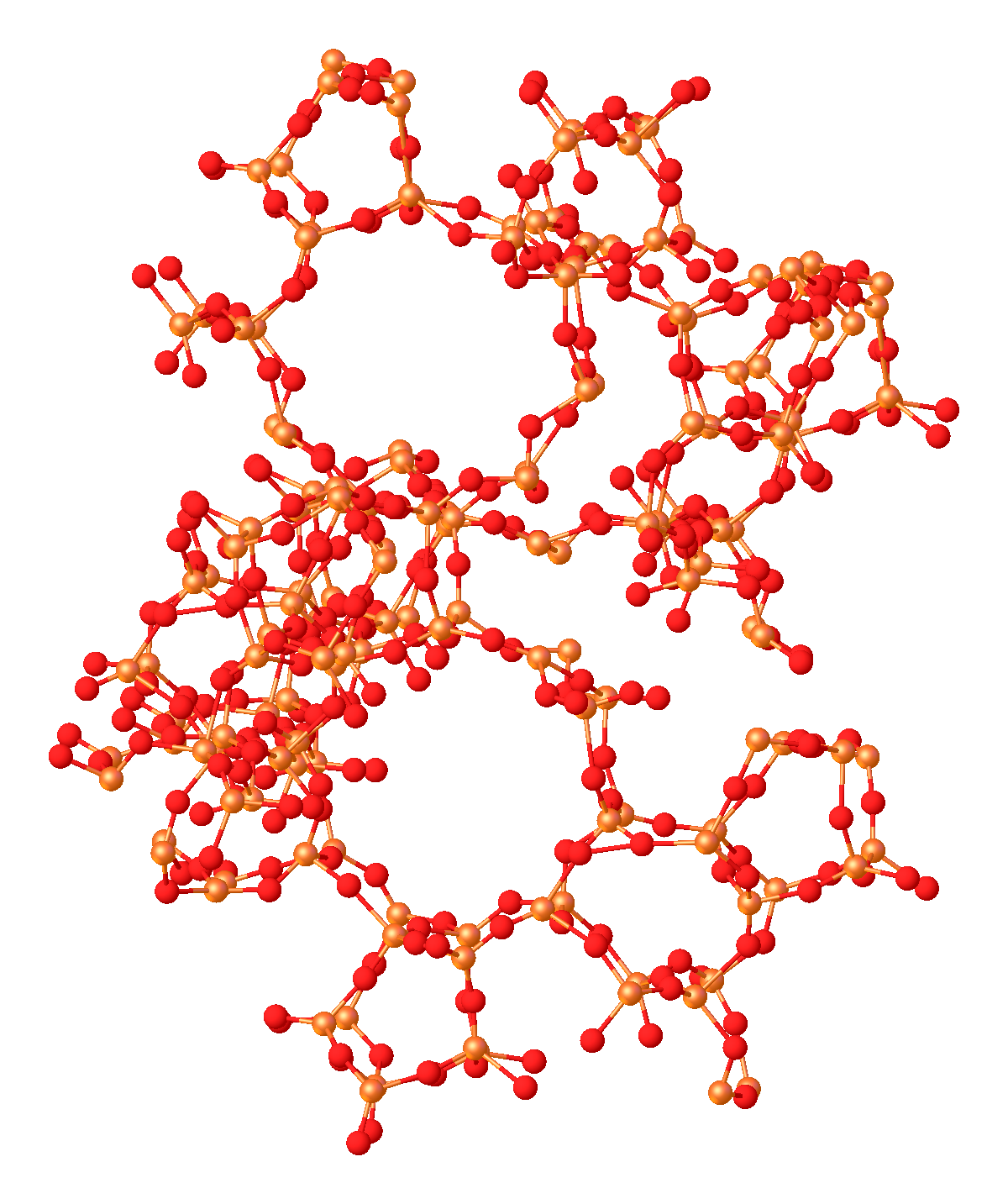 structure of silicalite